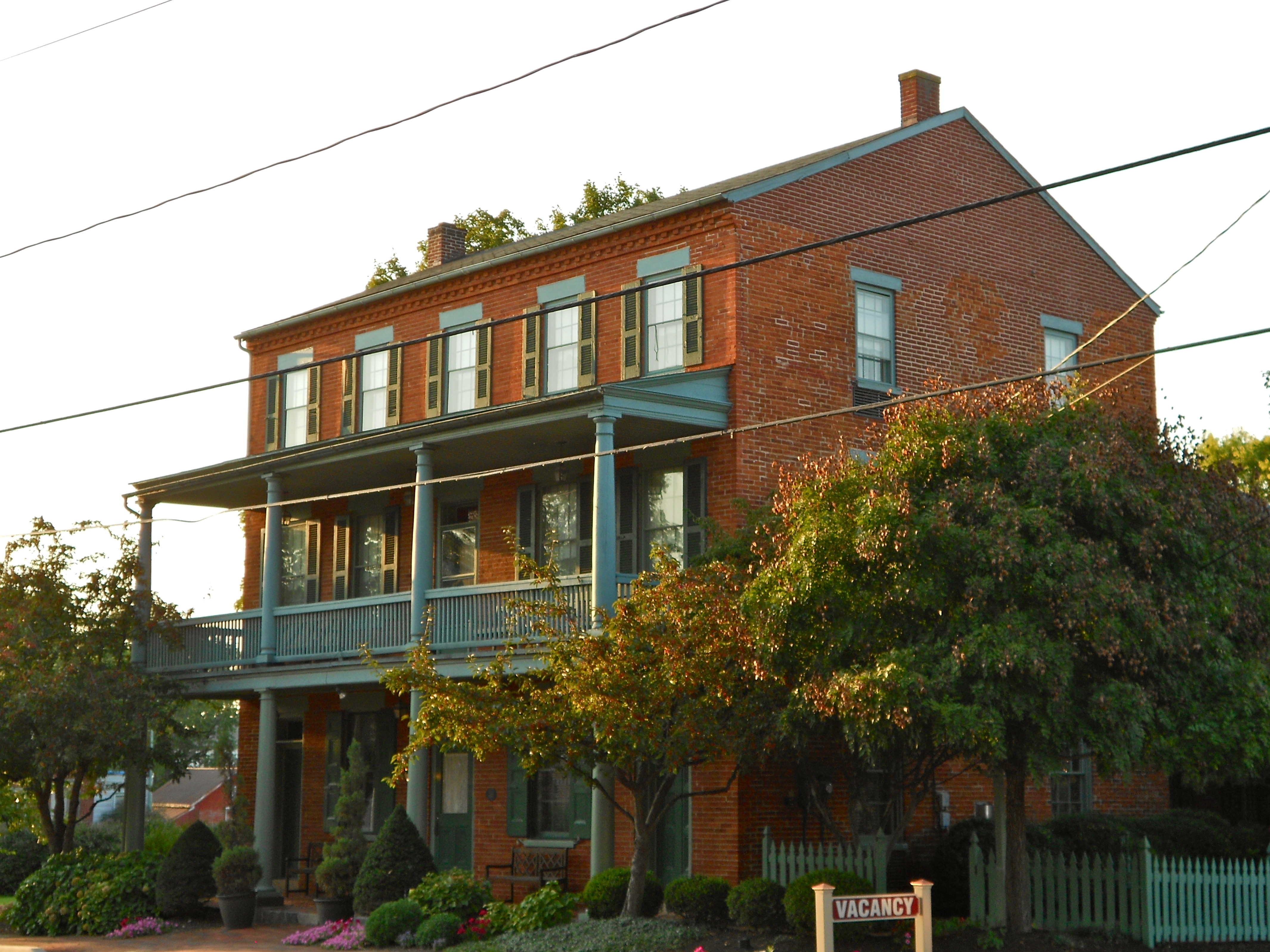 Bird-in-Hand Hotel on the north side of the Old Philadelphia Pike. Now part of a hotel complex that includes at least 2 buildings on the south side of the pike.